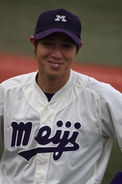 Yusuke Nomura, pitcher of the Meiji University Baseball Club, at Meiji Jingu Stadium.